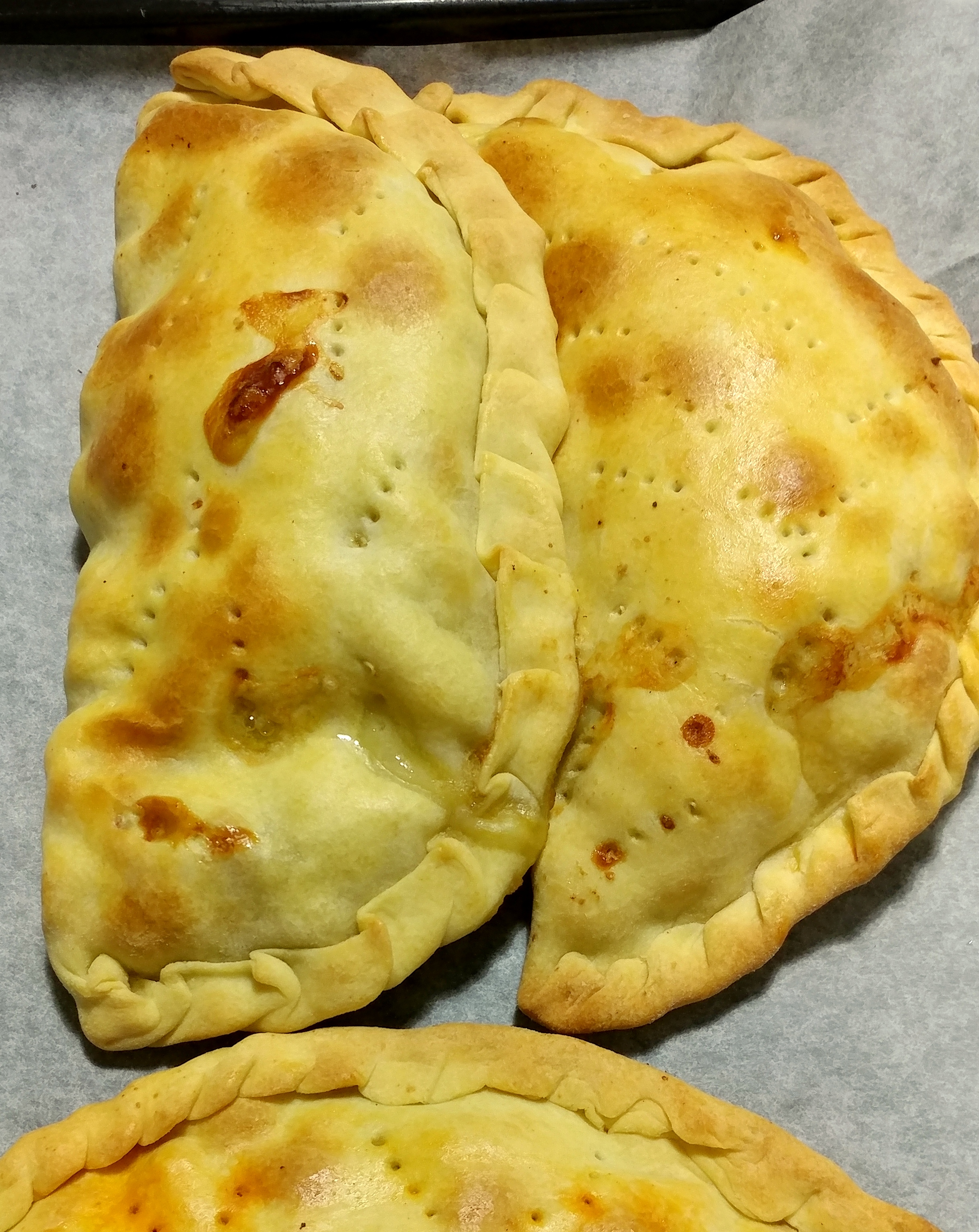 half moon shaped baked good filled with minced meat from Rotondella, Italy